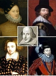 Collage of the 4 alternative candidates for the authorship of Shakespeare's works, surrounding the Folio engraving of William Shakespeare. Clockwise from top left: Edward de Vere, 17th Earl of Oxford, Francis Bacon, William Stanley, Earl of Derby and Christopher Marlowe.